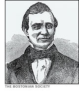 An artists rendition of Francis Tukey, City Marshal of Boston